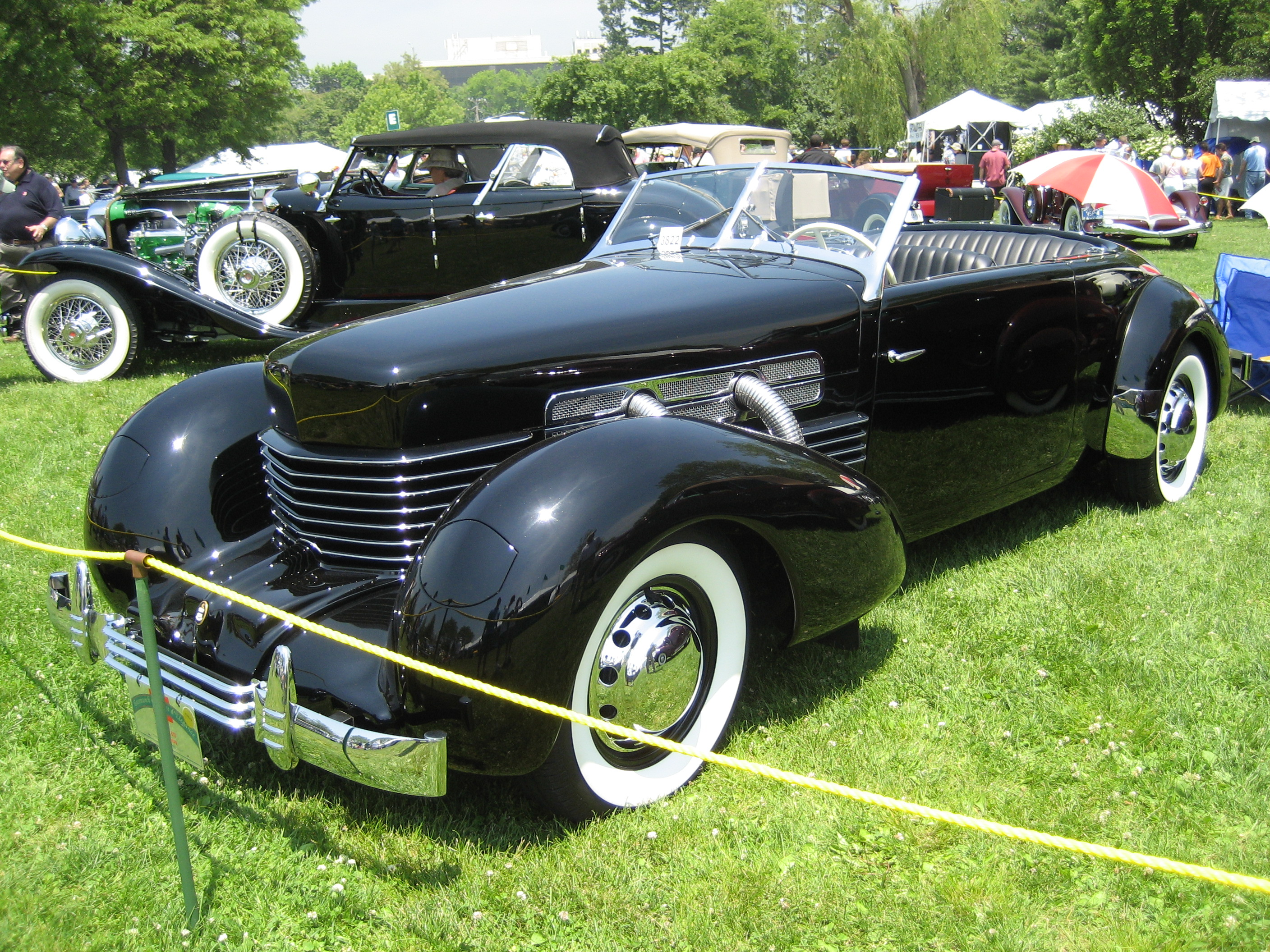 1936 Cord 810 Phaeton photographed at the 2008 Greenwich Concours d'Elegance in Greenwich, Connecticut.